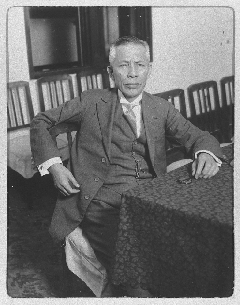 Portrait of Adachi Kenzo (安達謙蔵, 1864 – 1948)